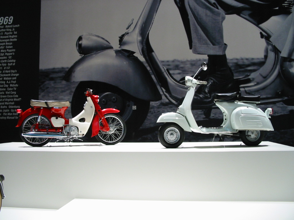 Honda and Vespa scooters at "Art of the Motorcycle" - Guggenheim Las Vegas 2001-2003